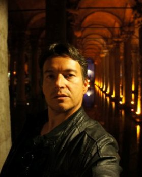 A. C. Frieden